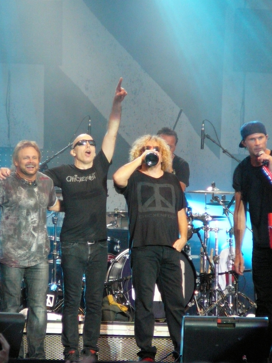 Template:Sxgs